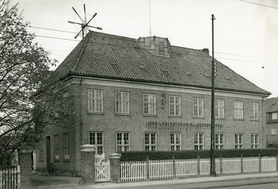 Laboratorium Ellehammer in 1954